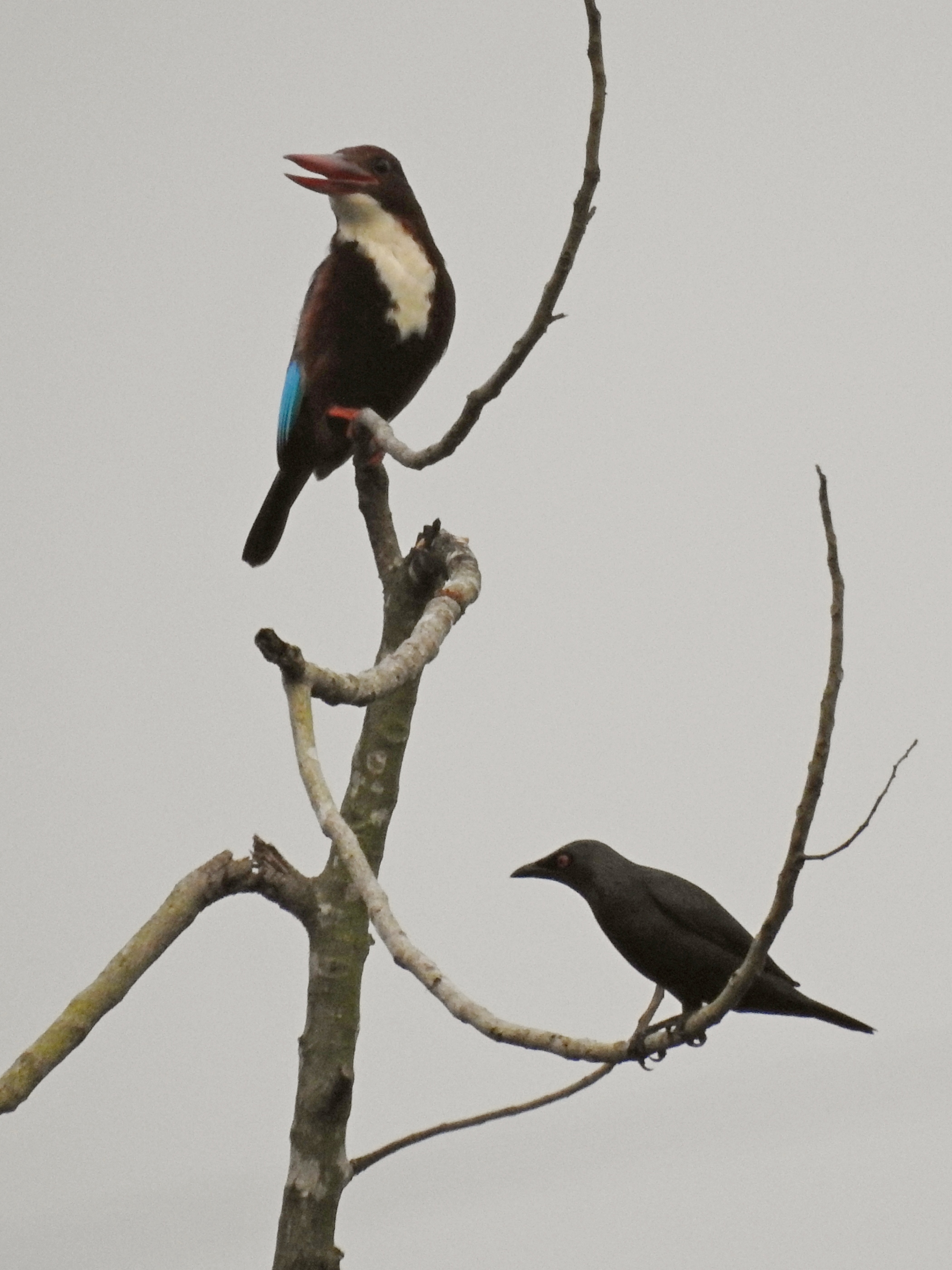 White-breasted kingfisher, Halcyon smyrnensis (above) and Asian glossy-starling, Aplonis panayensis (below). From Muara Rupit, South Sumatra, Indonesia.